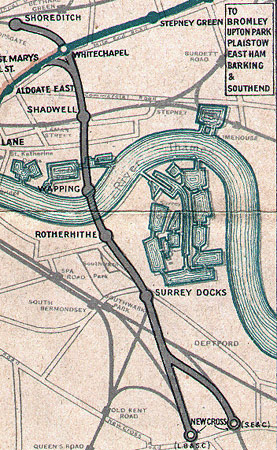 East London Railway, extracted from "Map of the Electric Railways of London", 1915